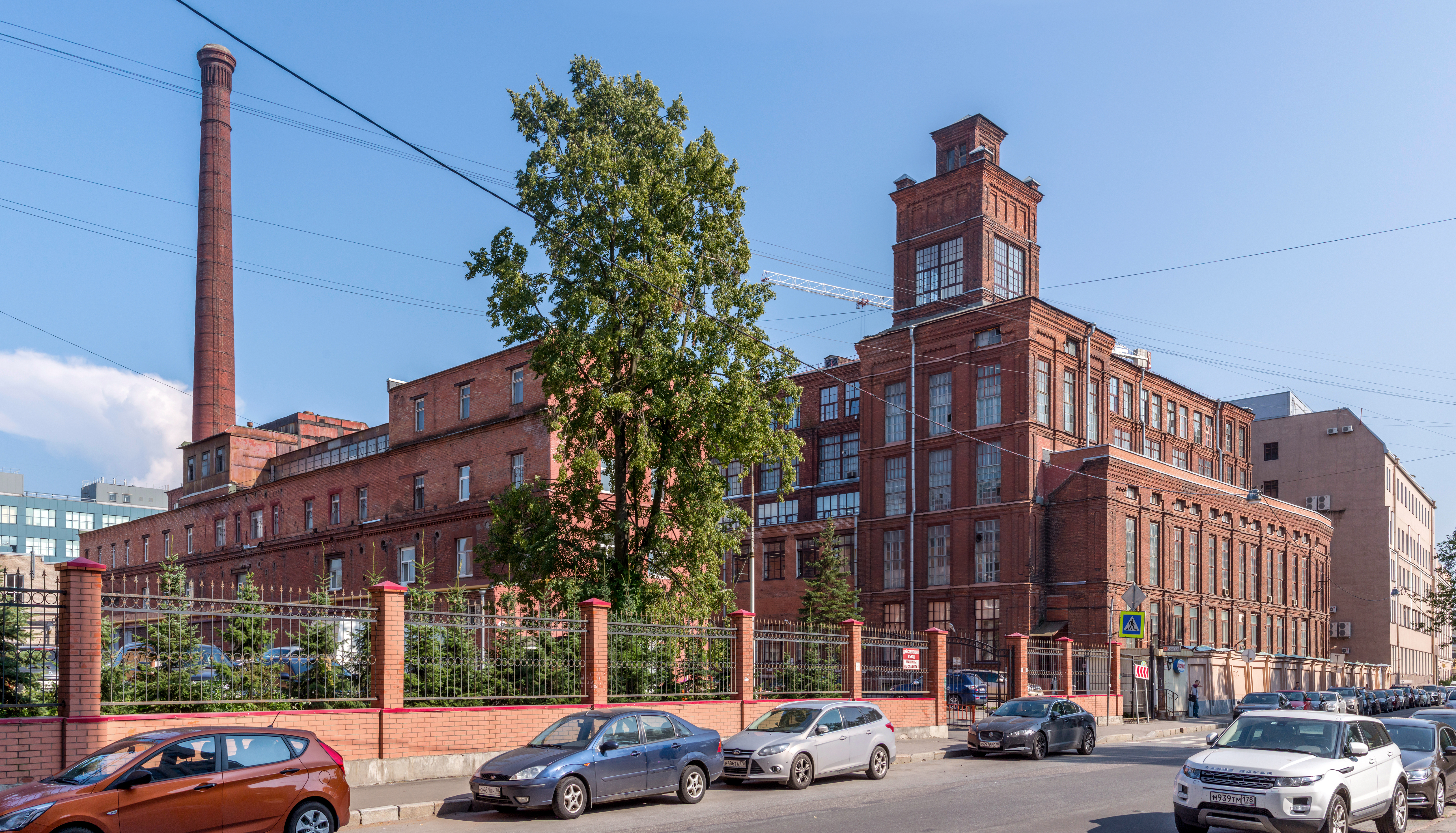 James Beck Cotton Manufactory Former Building in Saint Petersburg